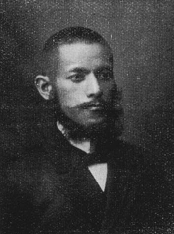 Mr. Un'ichi Nonomura, instructor of the Toshima Normal School and superintendent of the Elementary School attached to the School.